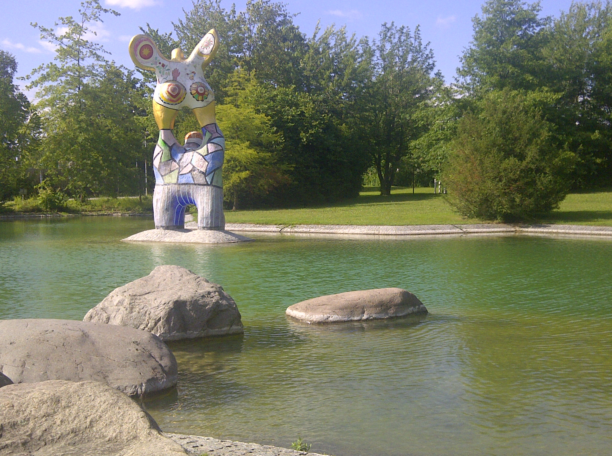 Small lake in front of the north entrance of Ulm University (Germany) with a sculpture of Niki de St. Phalle (The poet and his muse)